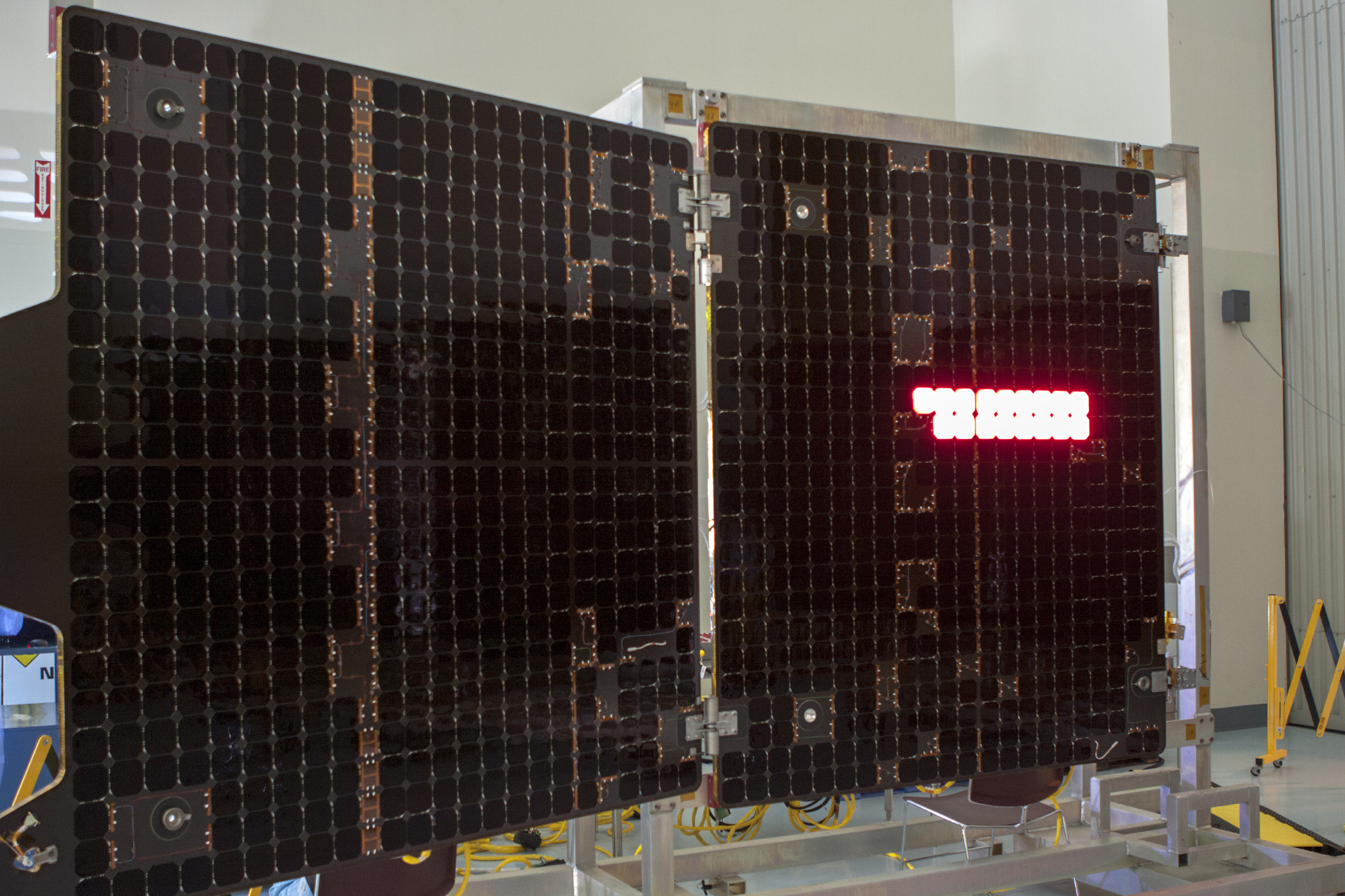 Inside the Payload Hazardous Servicing Facility at NASA's Kennedy Space Center in Florida, illumination testing is underway on the electricity-producing solar arrays for the Mars Atmosphere and Volatile Evolution, or MAVEN, spacecraft. Note that, in this test, electricity is being fed into the solar cells, causing them to glow. MAVEN is being prepared for its scheduled launch in November from Cape Canaveral Air Force Station, Fla. atop a United Launch Alliance Atlas V rocket. Positioned in an orbit above the Red Planet, MAVEN will study the upper atmosphere of Mars in unprecedented detail.